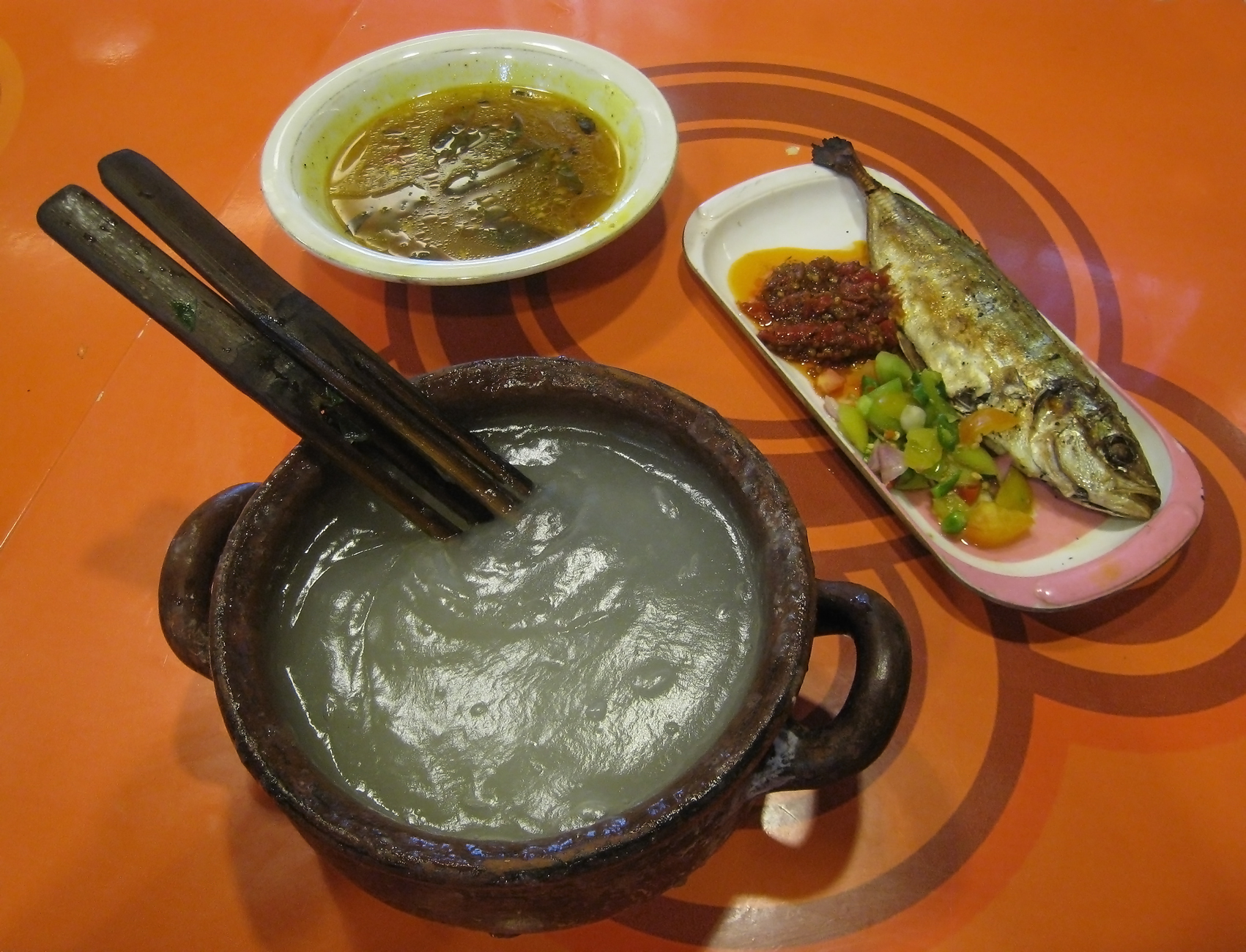 Papeda (sago congee), Kuah Kuning (yelow soup) and Ikan Tude Bakar (grilled fish) with Dabu-dabu and Rica sambal. The Eastern Indonesian meal; Papeda, the staple food of Eastern Indonesia have a glue-like consistency and texture. Waroeng Ikan Bakar, a restaurant specializing in Eastern Indonesian food (Manado, Maluku and Papuan cuisine). Atrium Senen Foodcourt, Jakarta, Indonesia.